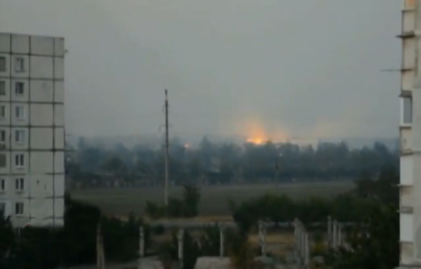 Ukrainian government troops defending Mariupol — fighting in the suburbs.